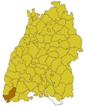 Map of Baden-Württemberg with the former county of Lörrach before 1973